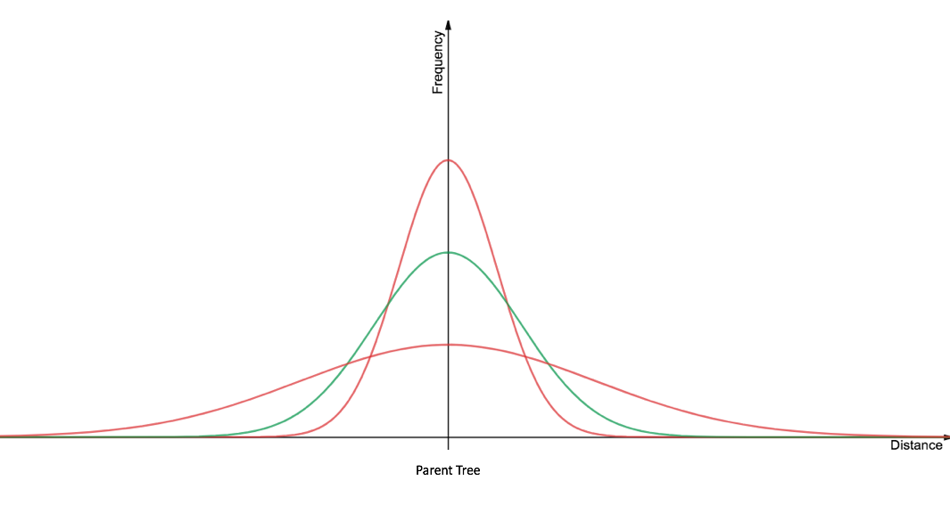 The parent tree (x=0) disperses seeds, and depending on the types of seeds, or the vector by which the seeds travel, the frequency of seeds landing (y-axis) at increasing distances from the parent tree (x-axis), will vary. This is the type of model used when representing seed dispersal rates when attempting to resolve Reid's Paradox.